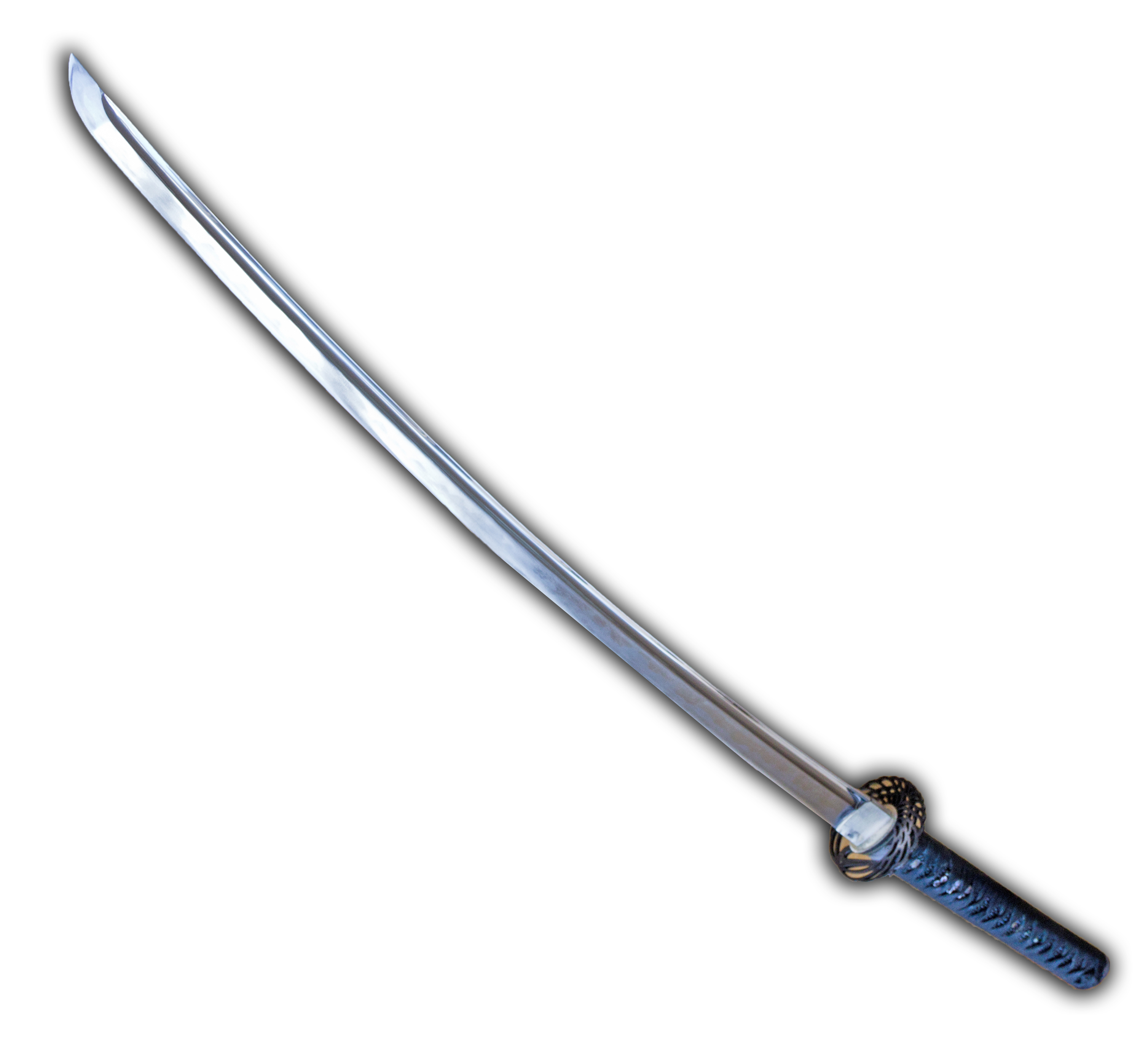 Iaito, a Katana sword for the martial arts practice of iaido.